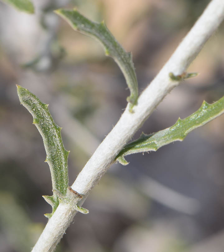 Close-up of white-hairy stem and spiny leaves of Rhanterium epapposum. Taken in Qatar.